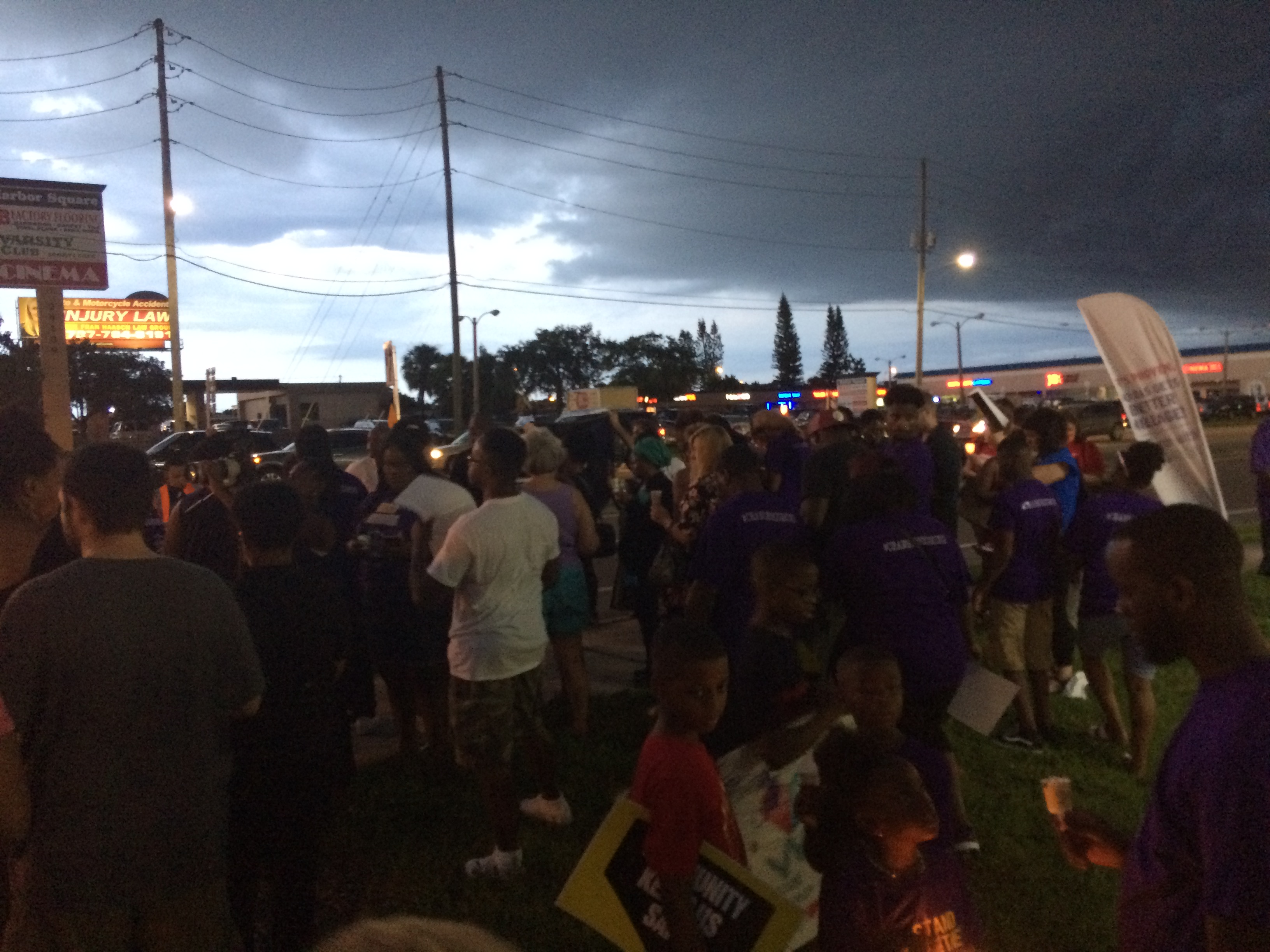 Photograph taken on Sunset Point Road as part of Justice for Markeis: A Legacy Never Forgotten, held on July 19, 2019.